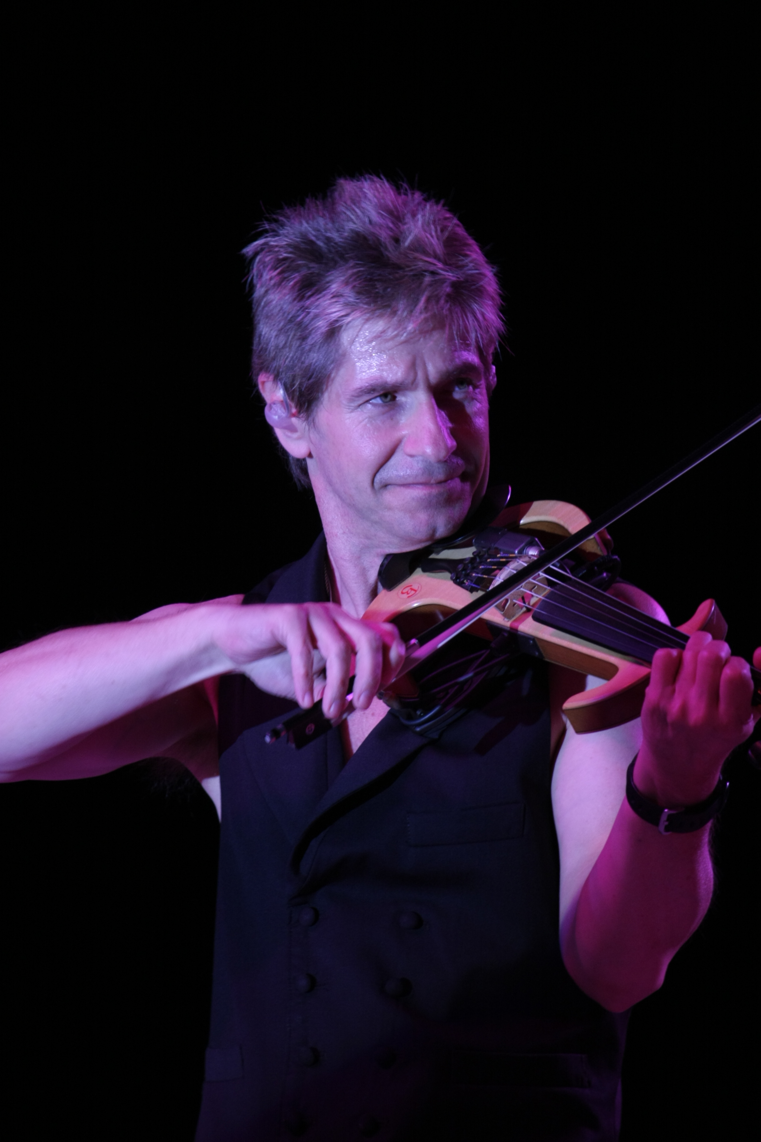 Dave Ragsdale the band Kansas